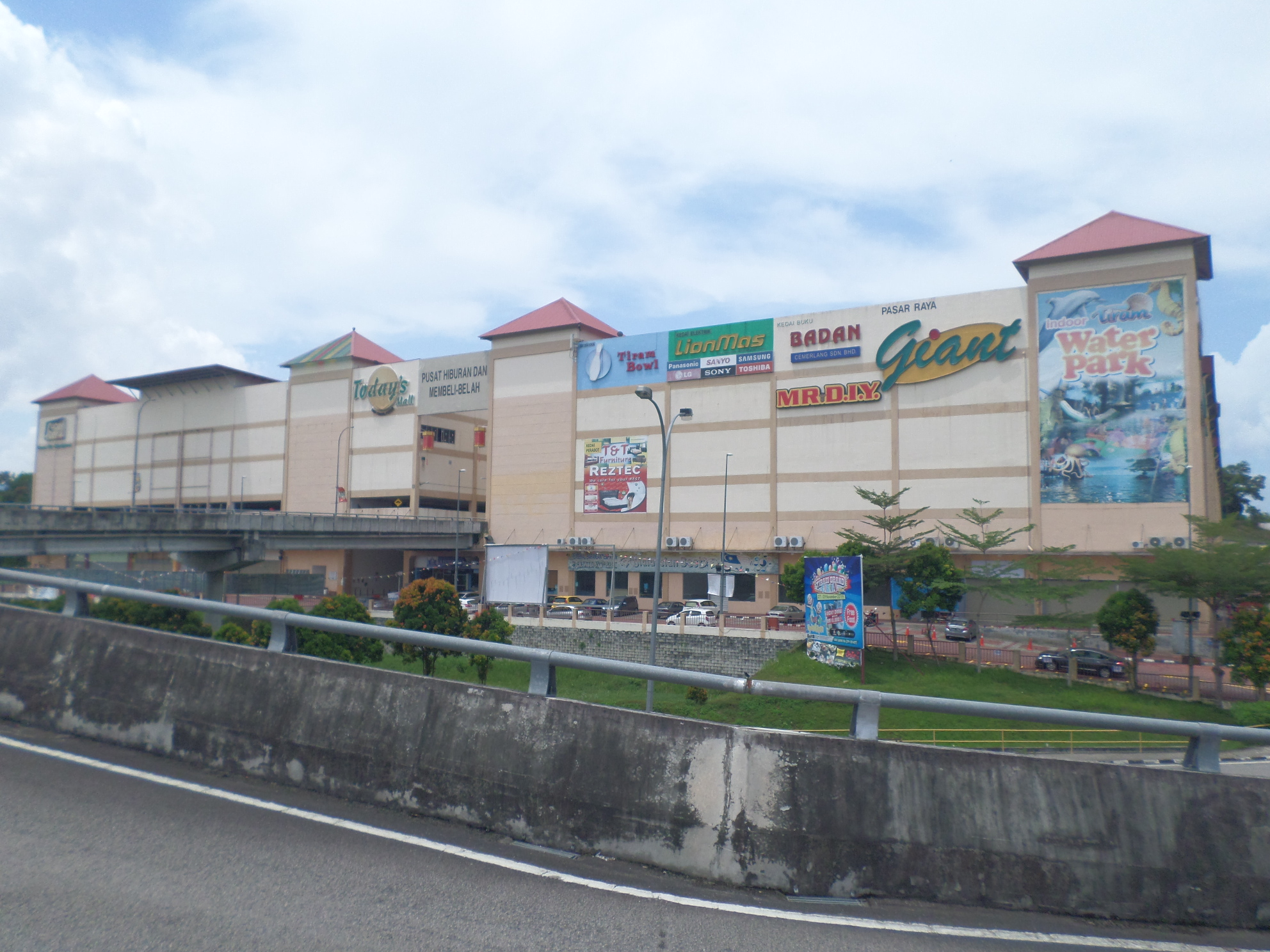 Today's Mall, Ulu Tiram, Johor Bahru, Johor, Malaysia